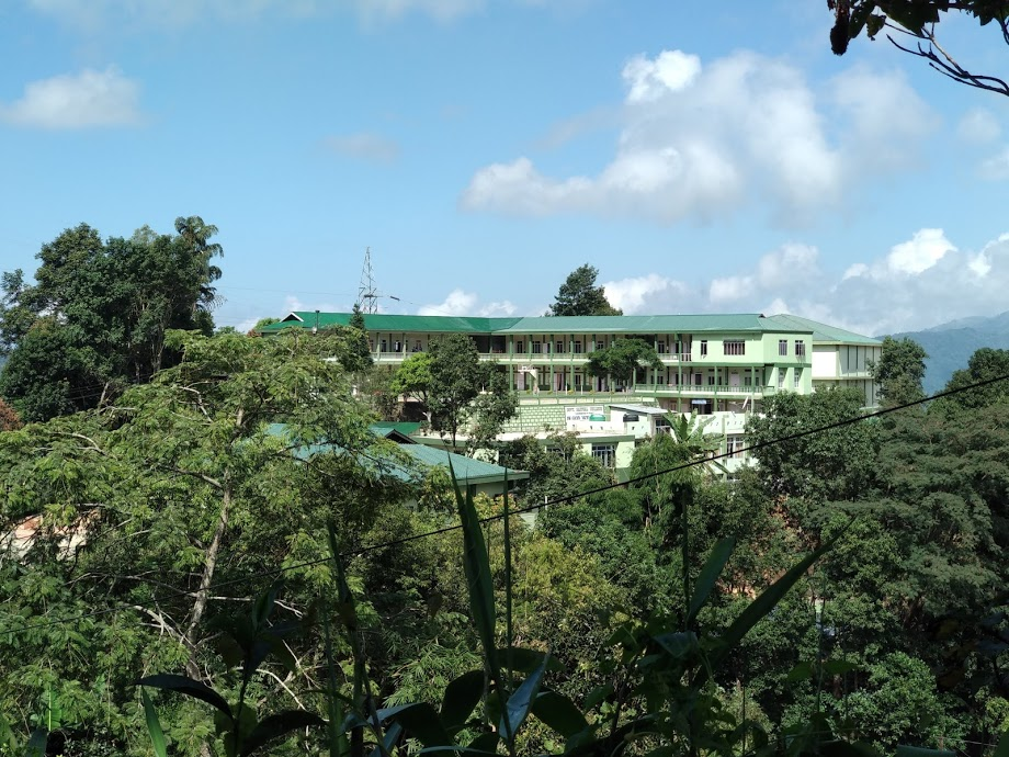 Saitual College Campus View